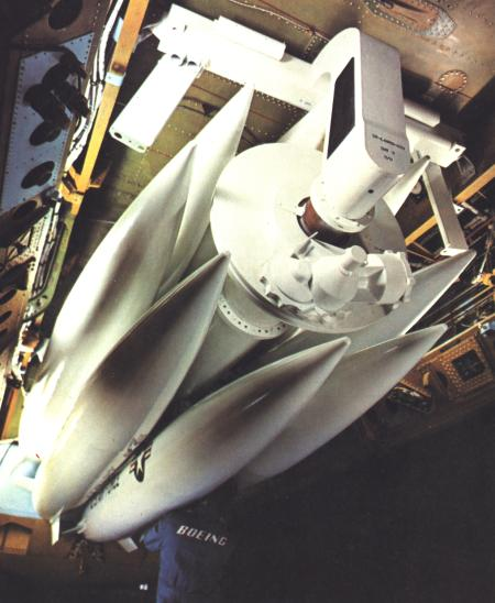 This is a photograph looking up into the bomb bay of the AGM-69 SRAM missiles on the rotary launcher in the bomb bay, also depicting the kinds of envelope available to install air launched cruise missiles.